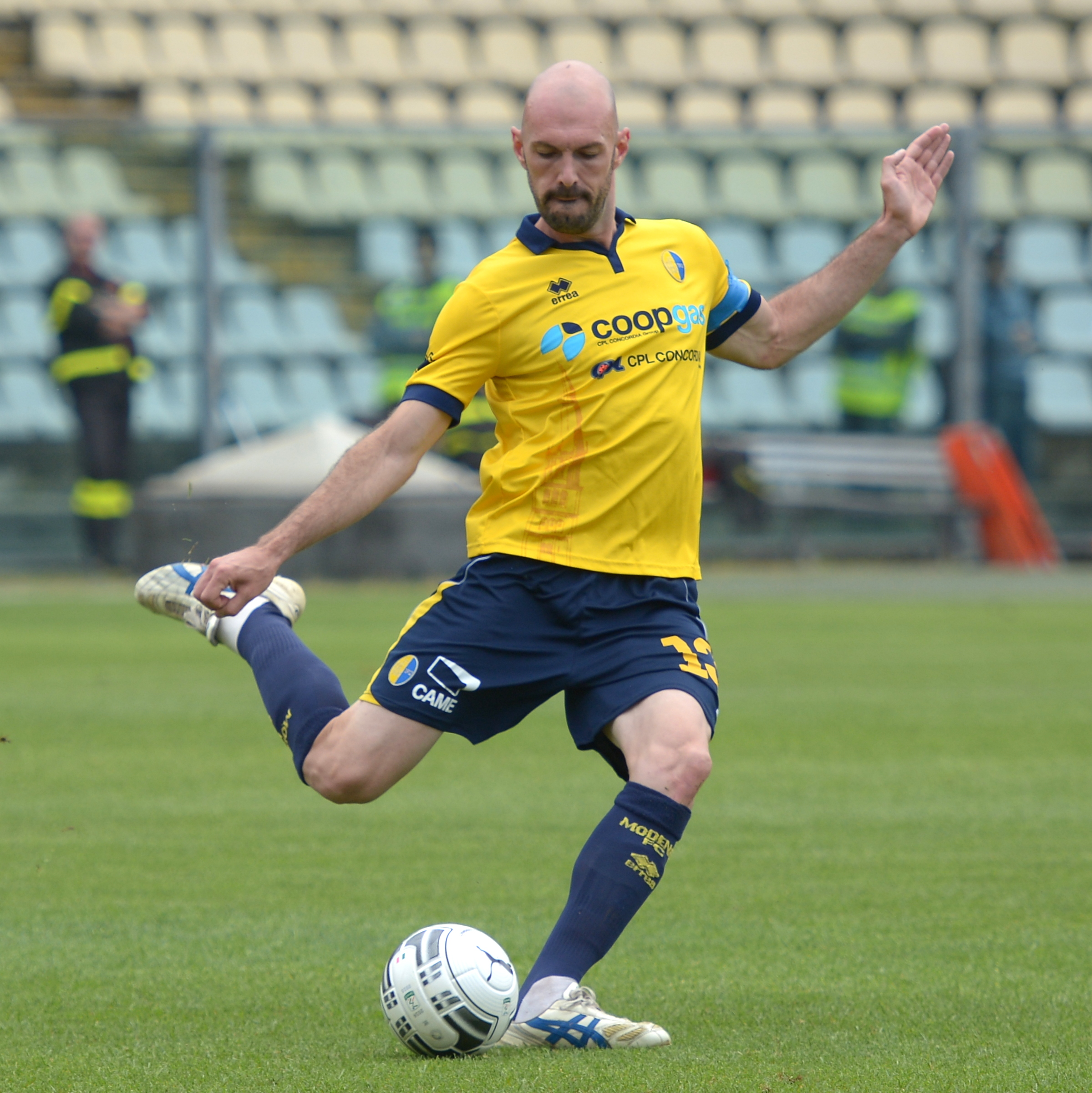 Simone Gozzi in action during the match Modena vs. Ternana